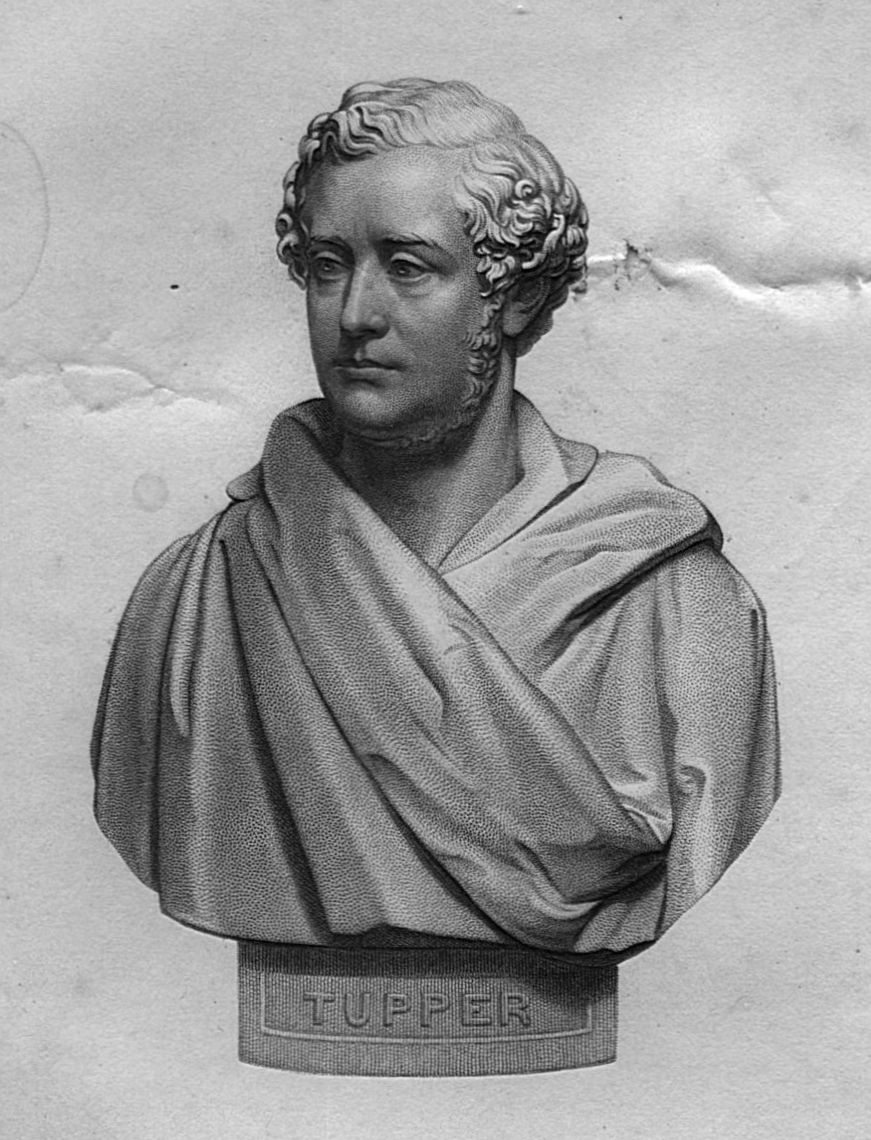 English writer, and poet, and the author of Proverbial Philosophy Martin Farquhar Tupper